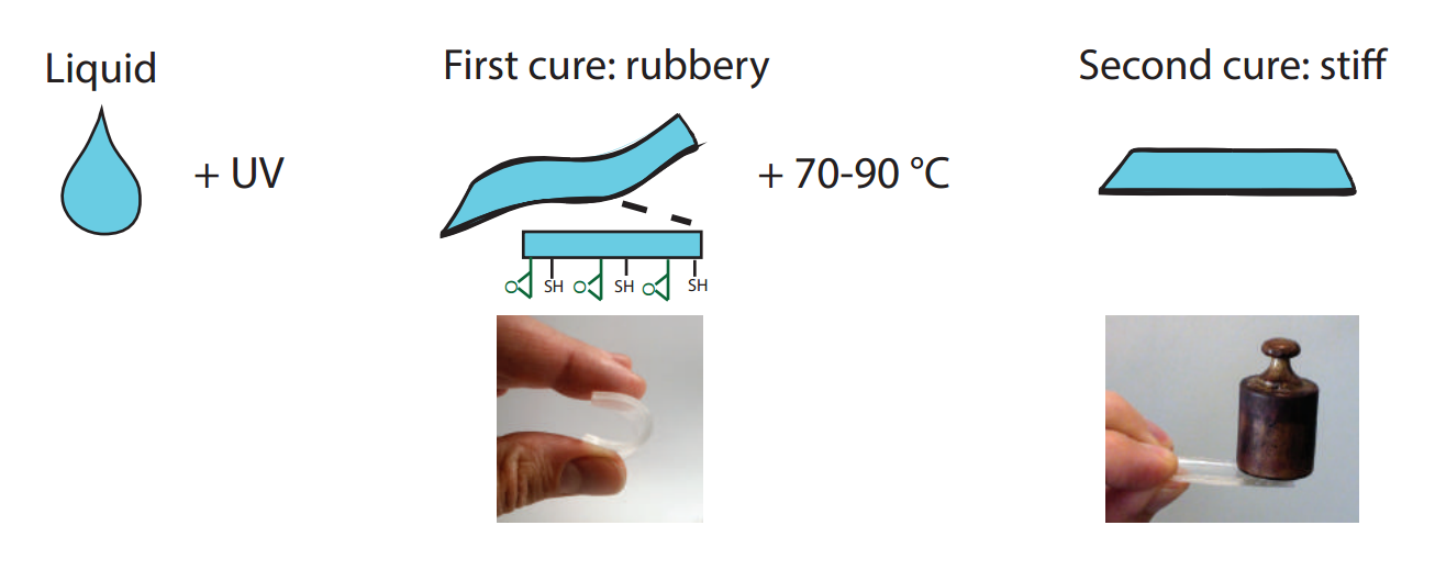 This is visual of the steps of making OSTEmer and their respective properties after each step.